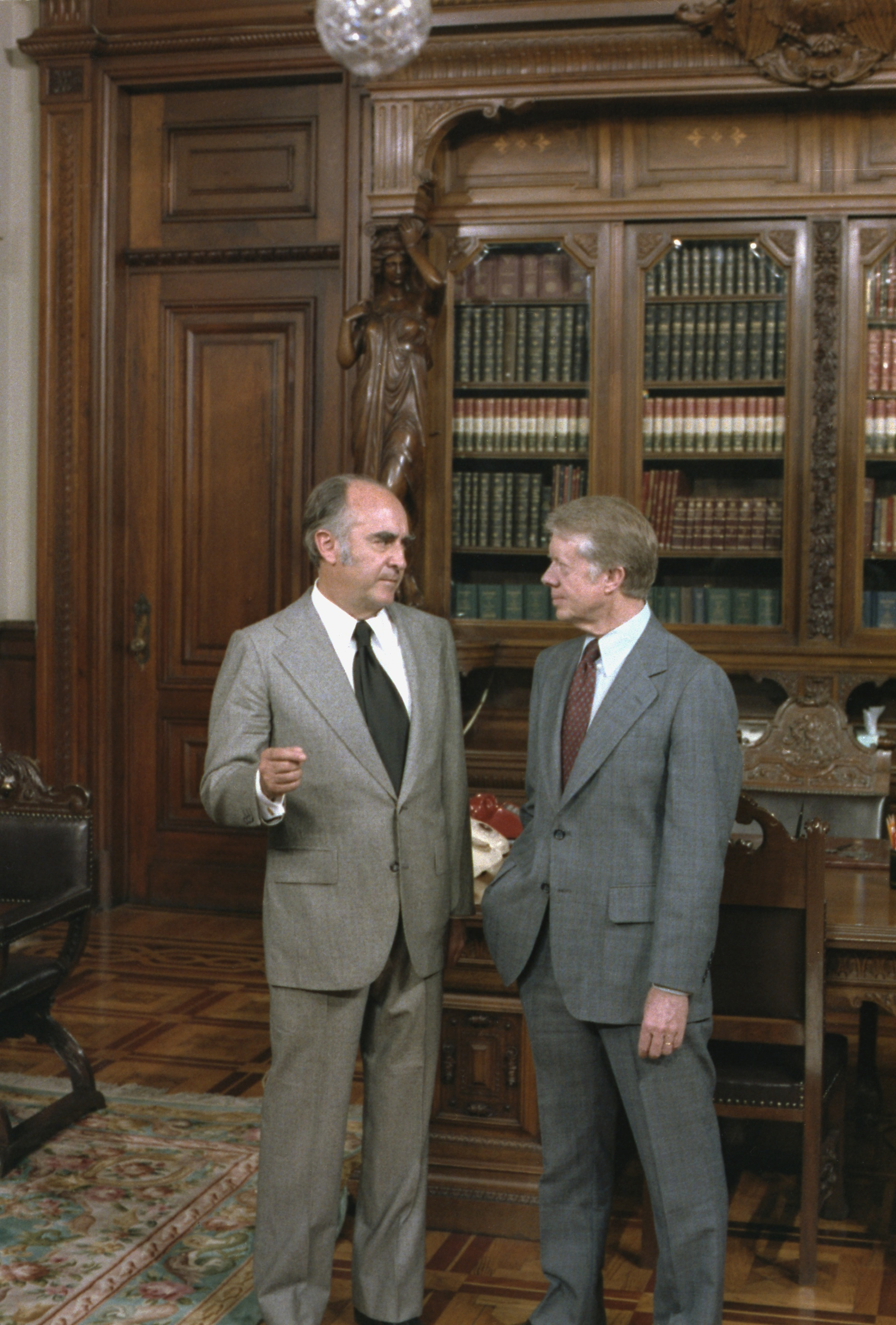 Mexican president José López Portillo (left) and U.S. President Jimmy Carter (right).